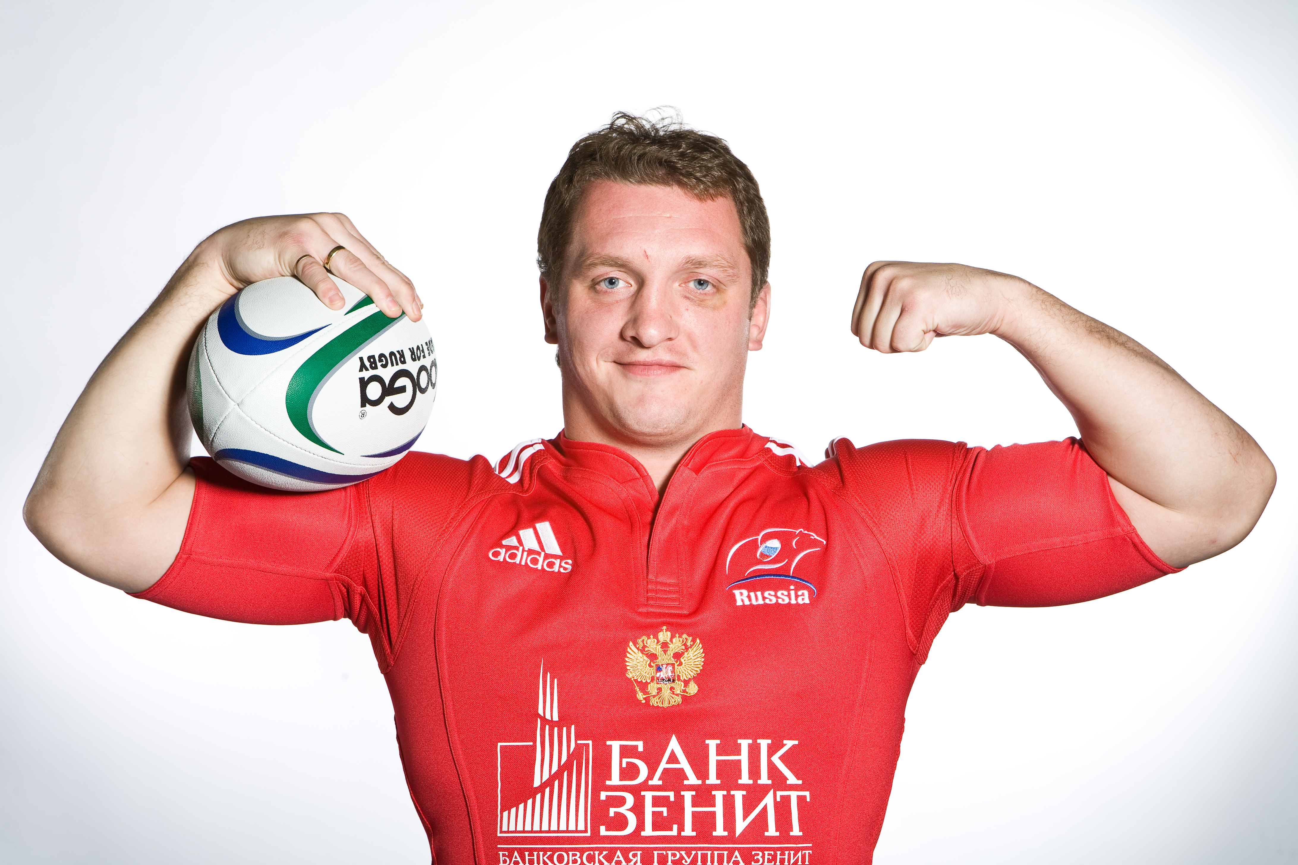 Vladislav Korshunov